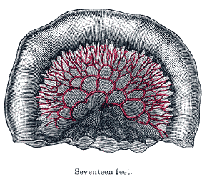 No caption.